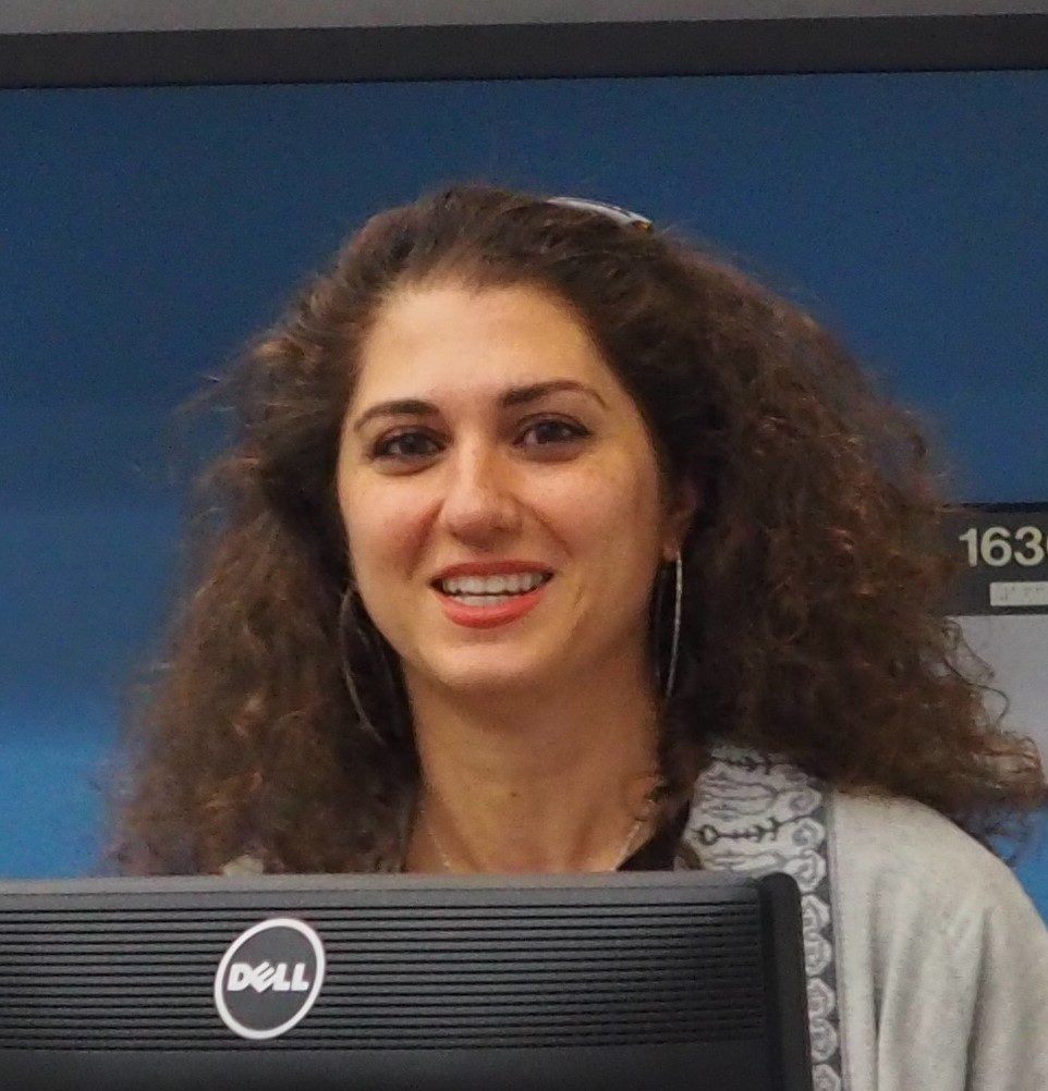 reading at Fall for the Book, Fairfax, Virginia